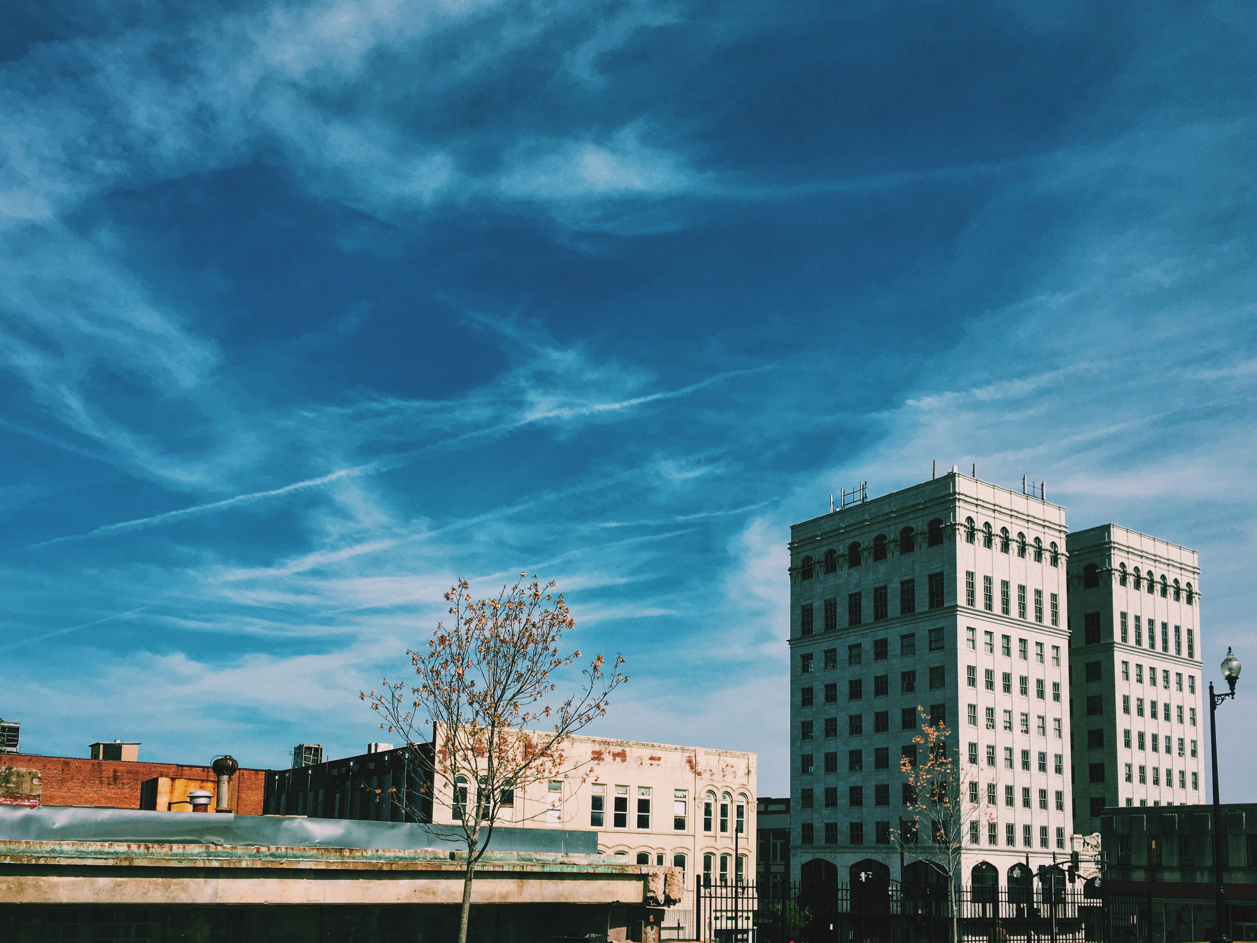 View of Downtown Danville, VA looking north